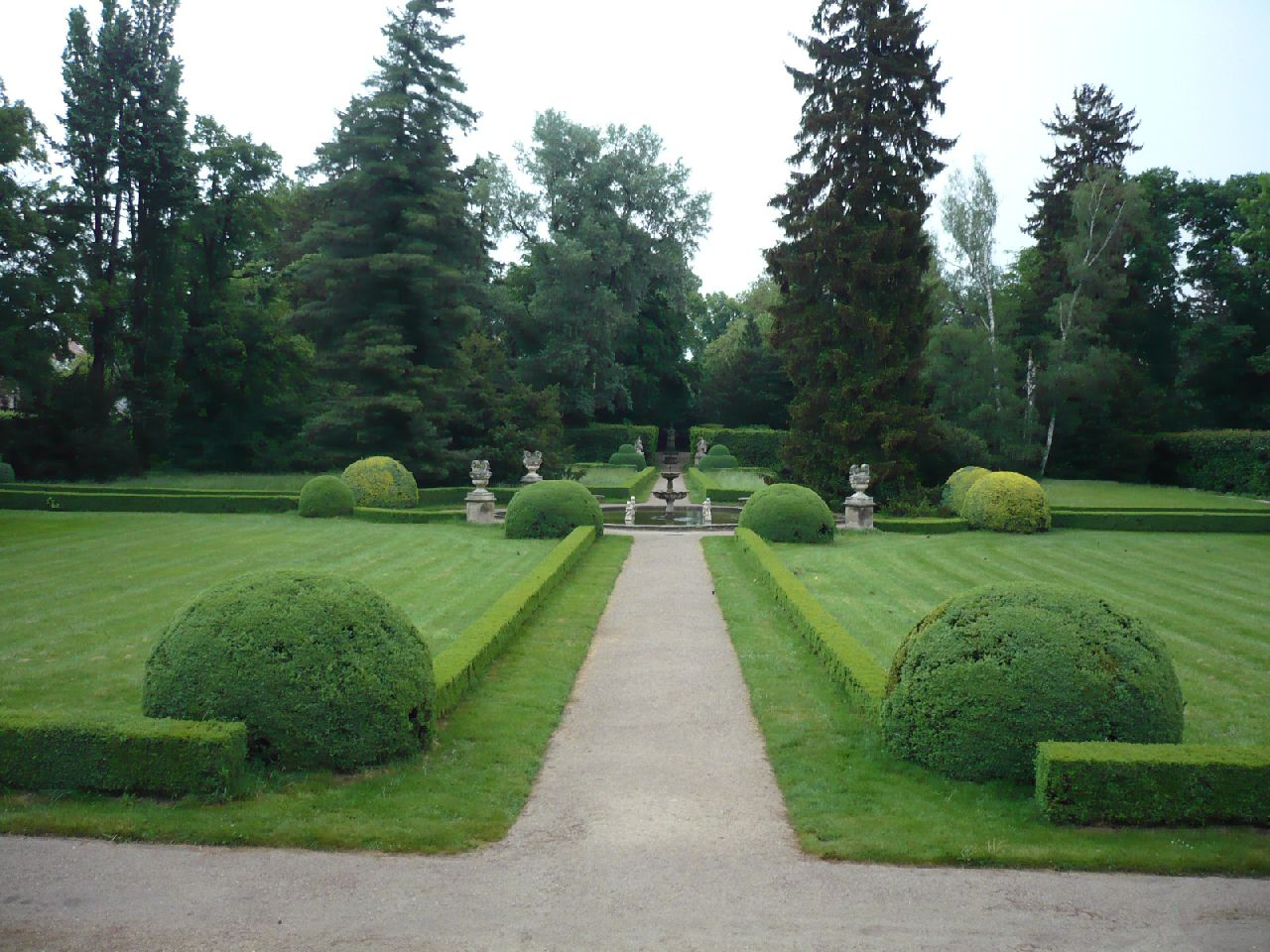 Castle Buchlovice - castle garden